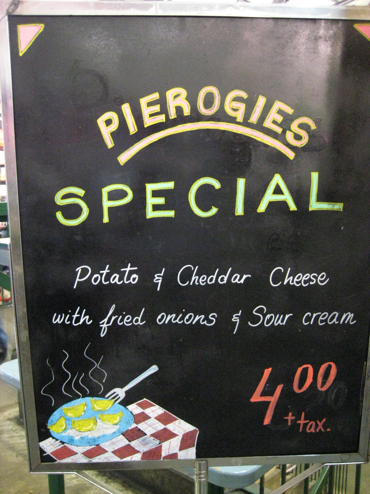 Pierogi (commonly misspelled as "Pierogies") special at St. Lawrence market, Toronto